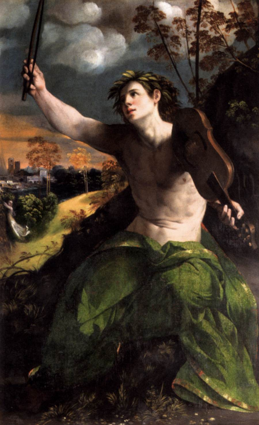 This painting was probably commissioned by Alfonso d'Este and may allude to his love affair with the lady-in-waiting Laura Dianti, after the death of his wife, Lucrezia Borgia, in 1519. The painting was inspired by the story of Apollo and Daphne in Ovid's Metamorphoses: Apollo is singing his love for Daphne and interrupts his performance at the moment when the nymph is transformed into a laurel tree (allusion to Laura) in the landscape on the left. Apollo accompanies his song on a viola da braccio, the instrument played by Duke Alfonso.